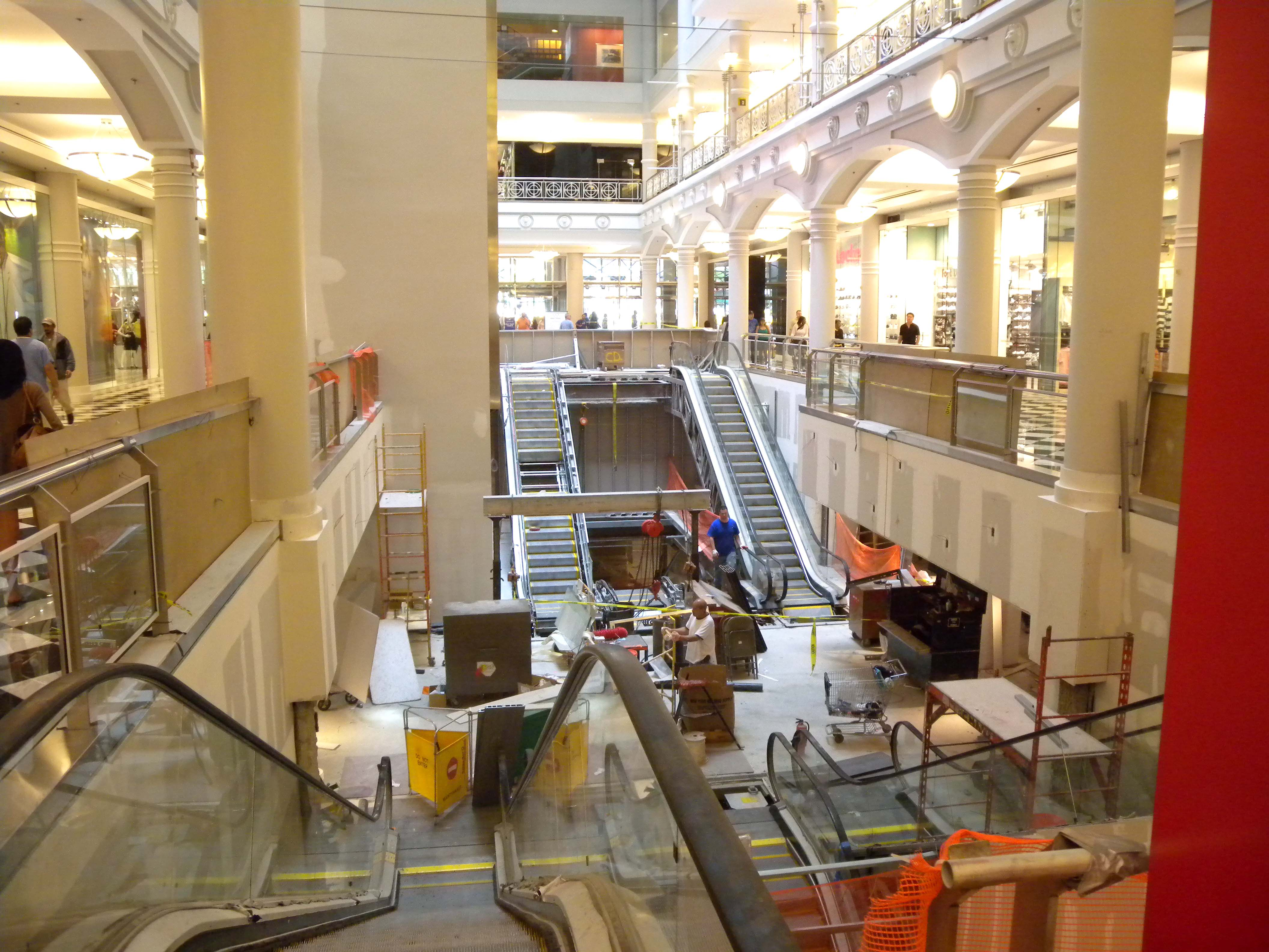 Looking east at Manhattan Mall lower floors during renovation